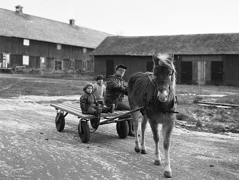 Ågesta Gård. Godsarrendatorn Bo Krusenstierna med barnen Fredrik och Julie och hästen Laila lämnar gården för utflykt mot berget där Atomverket ska byggas. 1957-1957 FOTOGRAF: Blomquist, Åke (Fotograf på Svenska Dagbladet). Svenska DagbladetBILDNUMMER: SvD 29487Stadsmuseet i Stockholm